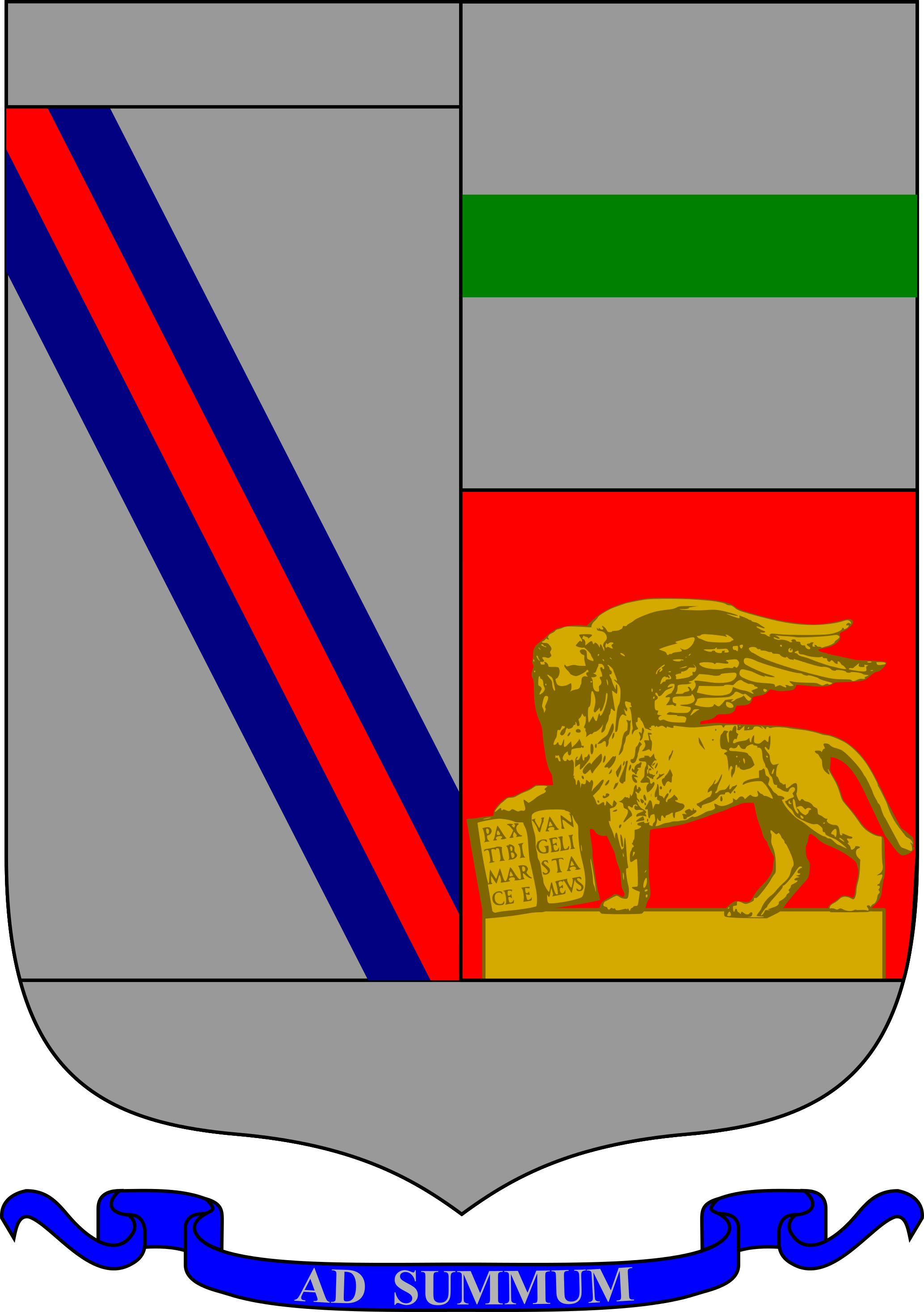 Coat of Arms of the 71st Infantry Regiment "Puglie", Royal Italian Army, 1939 - Winged Lion modified from artwork by user user:Tonchino, released to public domain (see File:Leone di san Marco.png)